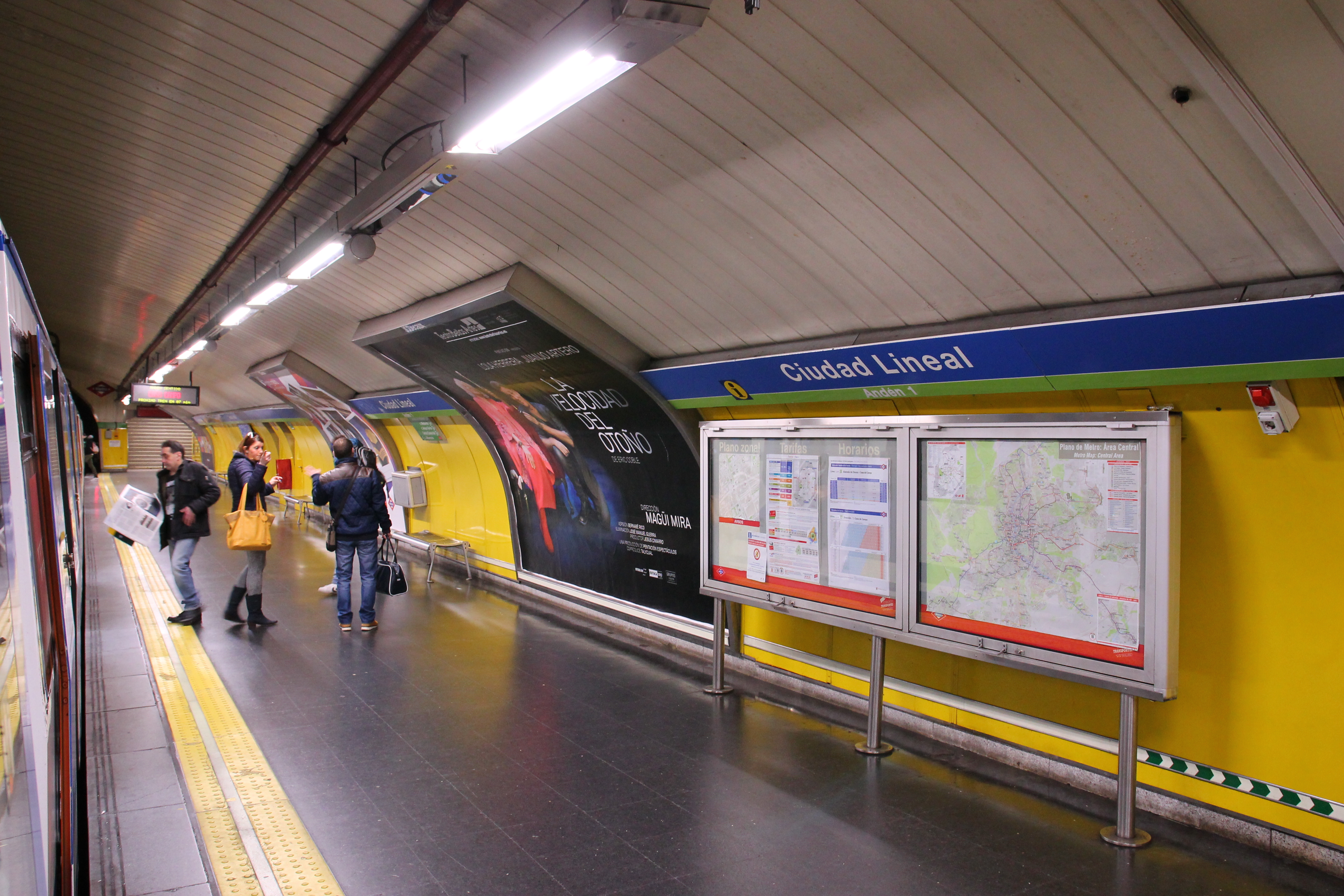 Estación de Ciudad Lineal